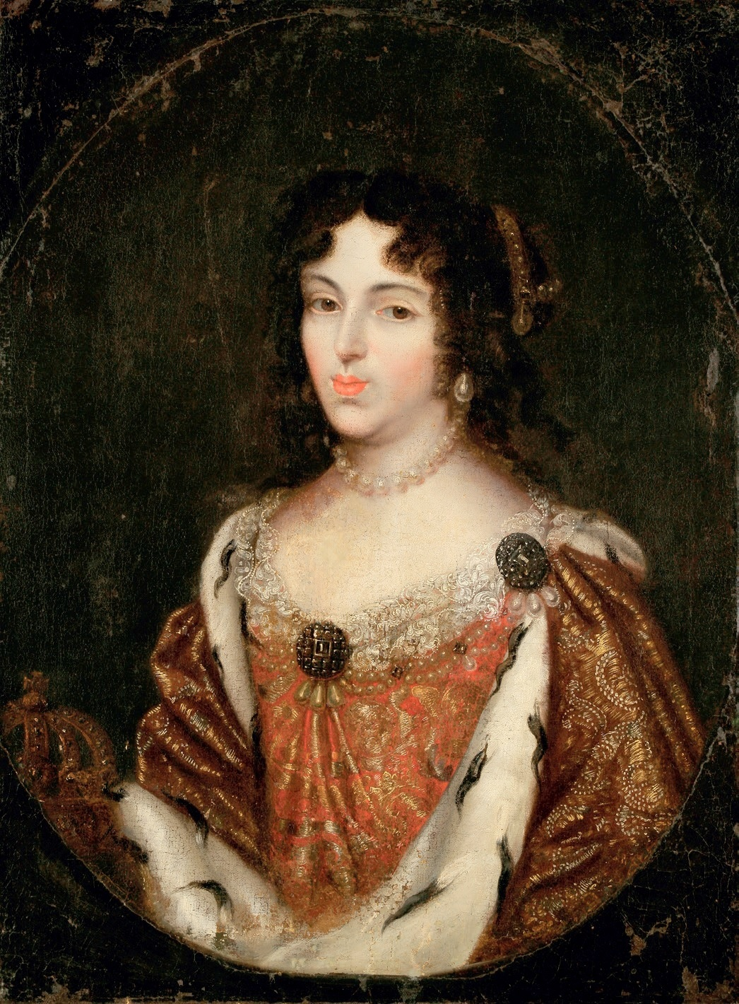 Portrait of Marie Casimire Sobieska.